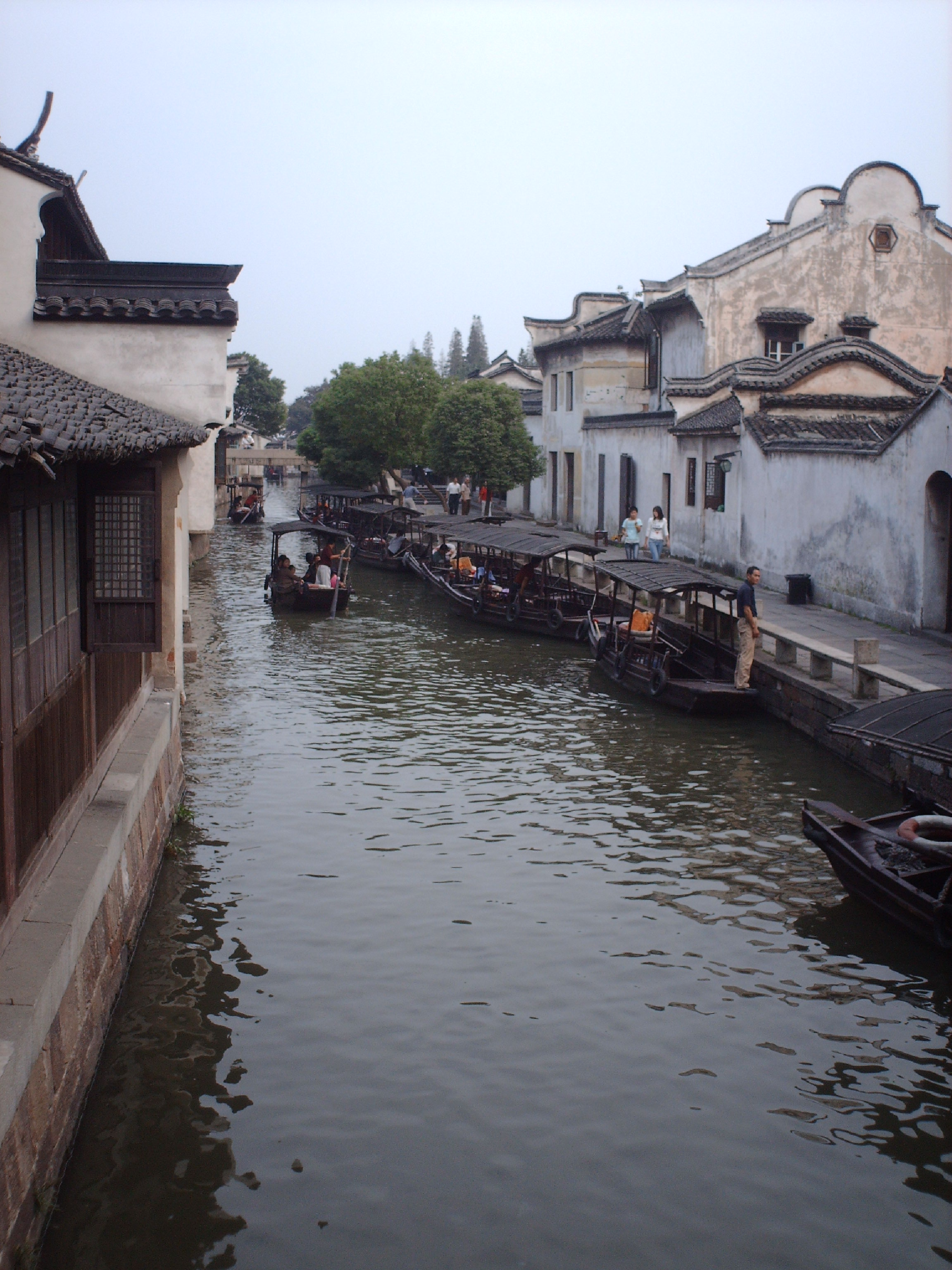 Wuzhen Town